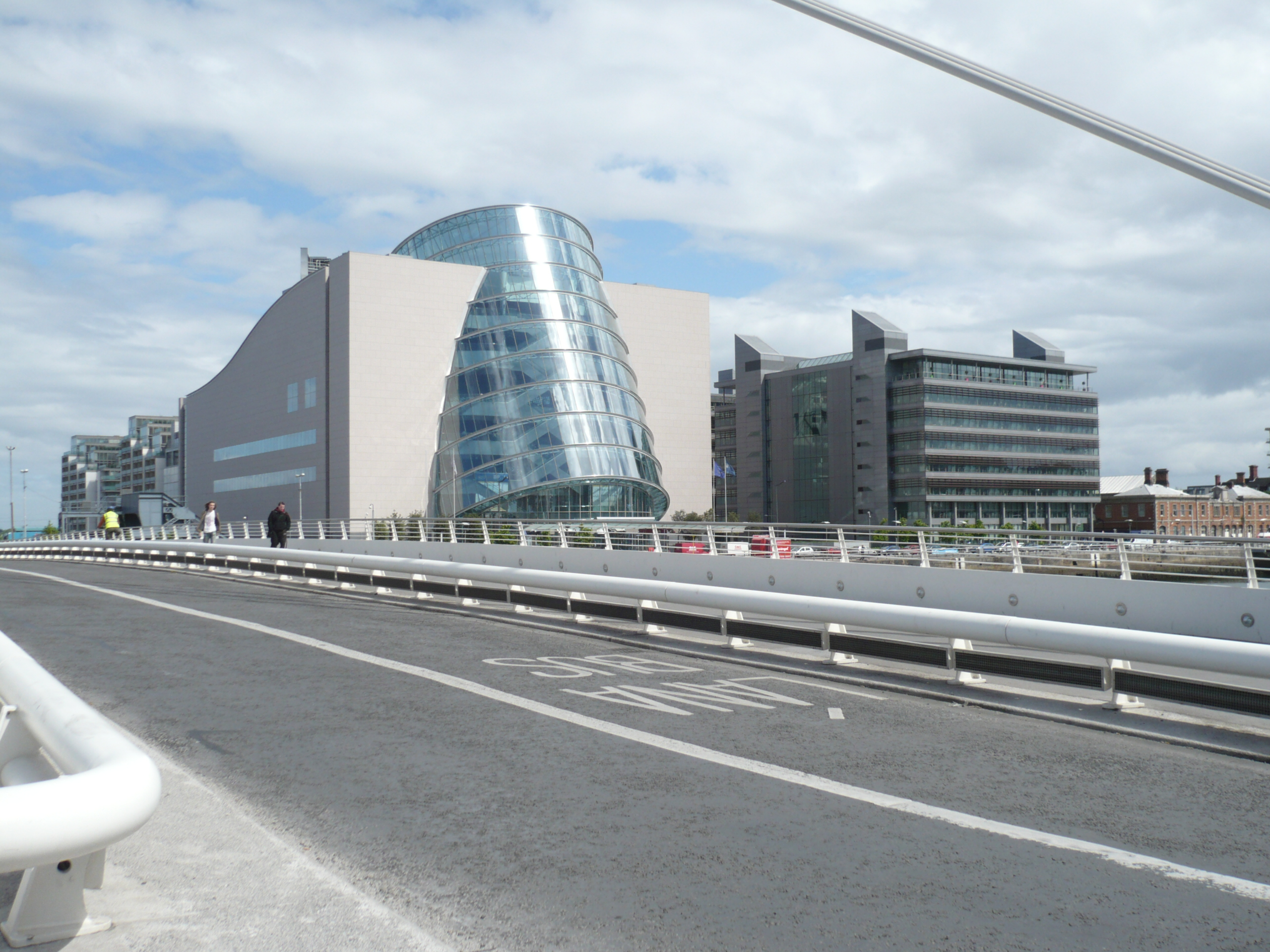 CCD Convention Centre Dublin